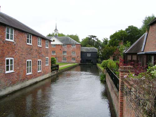 Author:N MacLain Whitchurch Silk Mill